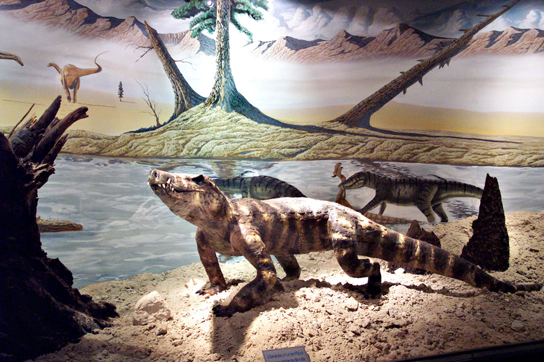 A new Crocodylomorpha from the Bauru Basin (Upper Cretaceous), Dinosaur Museum, Peiropolis, Uberaba, MG, Brazil